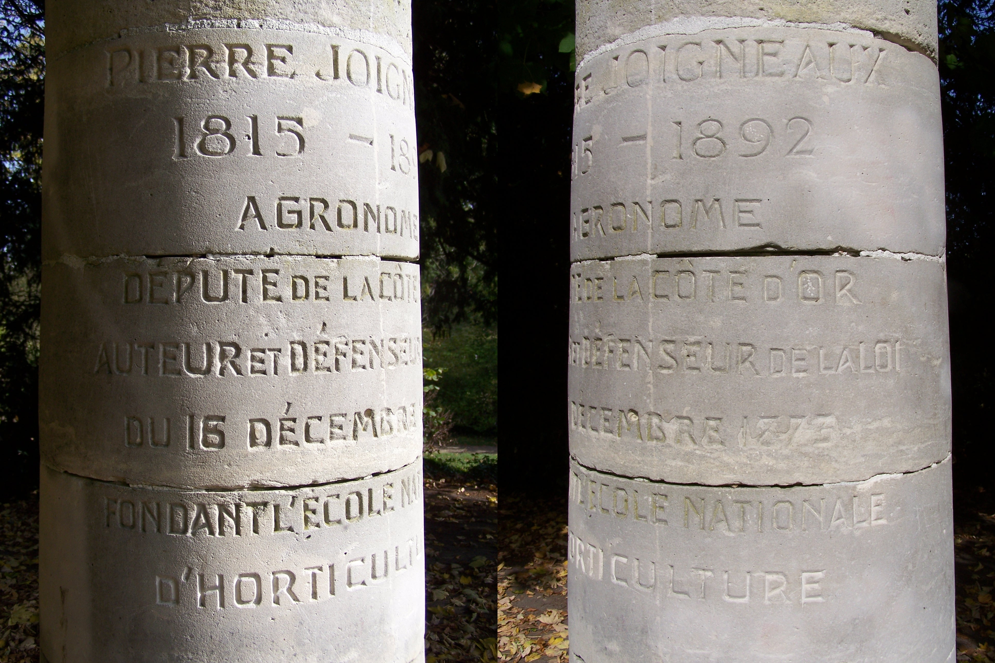 Inscriptions on the memorial for Pierre Joigneaux in the park Balbi in Versailles (Yvelines, France)